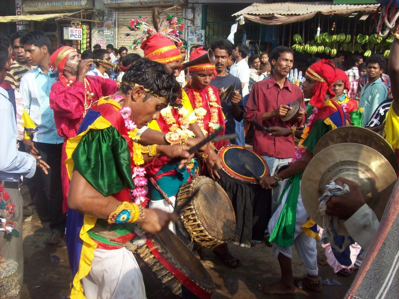 Ghumra dance during chattar Jatra